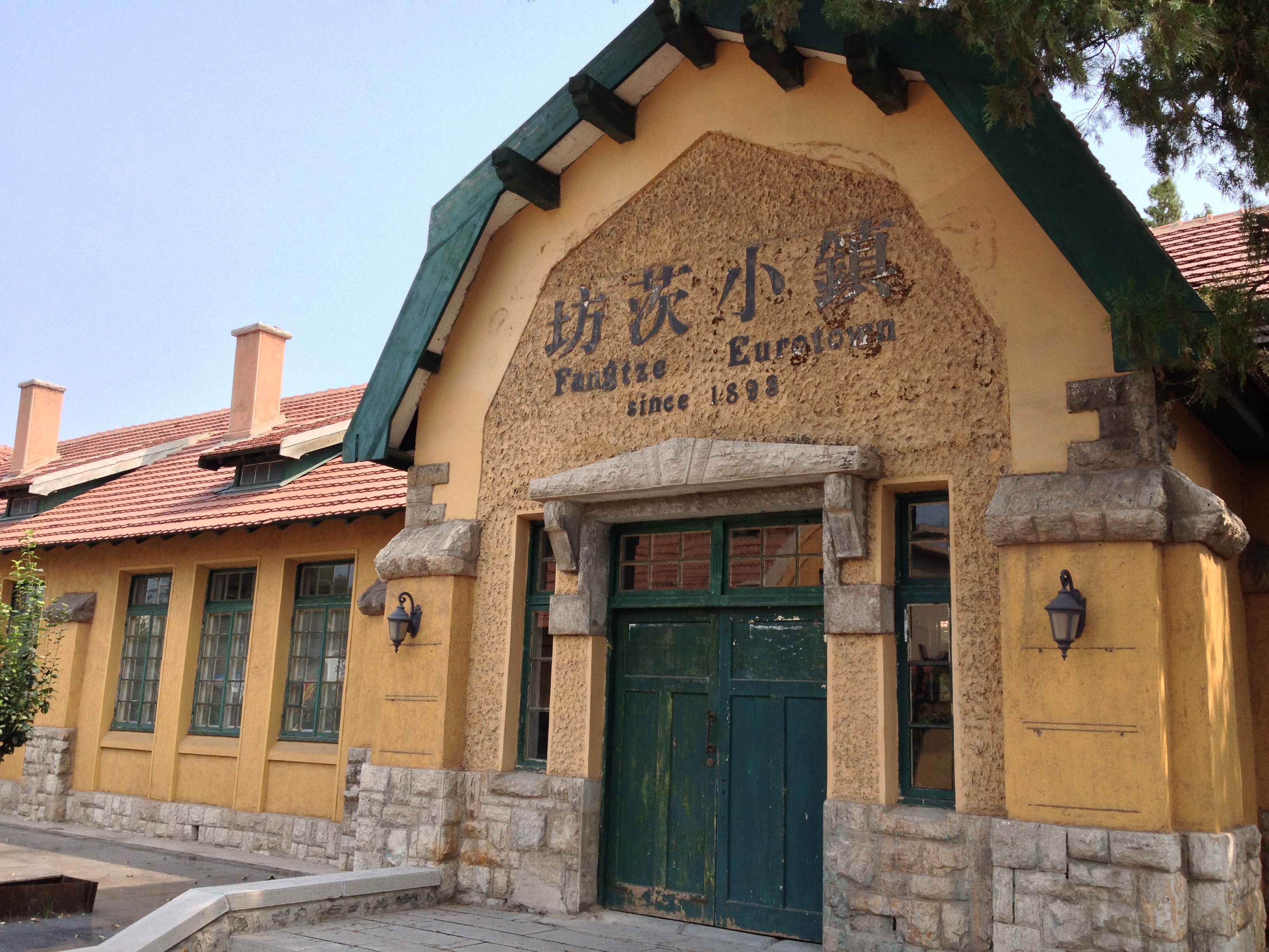 Former Japanese Primary School in Weifang-Fangzi, China